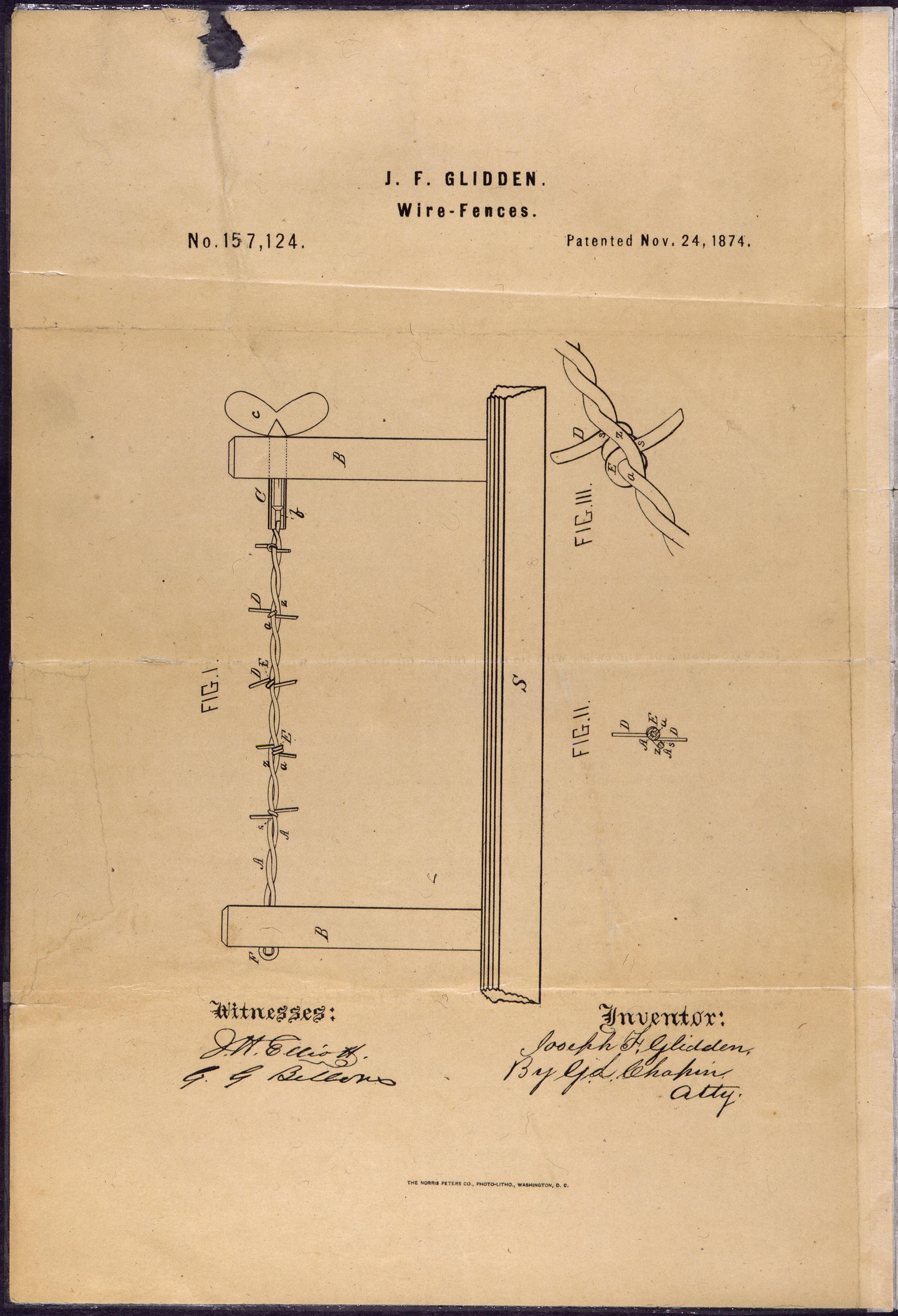 Scope and content: While the later half of the 19th century saw a series of patents for barbed wire, it was this one that has proven to be the most enduring. In 1874 Joseph Glidden, an Illinois farmer, patented an improved design which held the wire barbs in place. Glidden's wire was the leading barbed wire used while the West was being settled; since that time, there has been little change to his innovation. General notes: Exhibit history: "American Originals," December 1997 - December 1998, National Archives Rotunda, Washington, DC, Exhibit No. 624.0202.